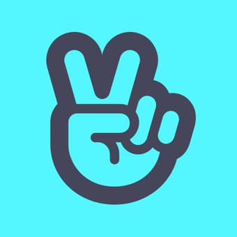 Website streaming